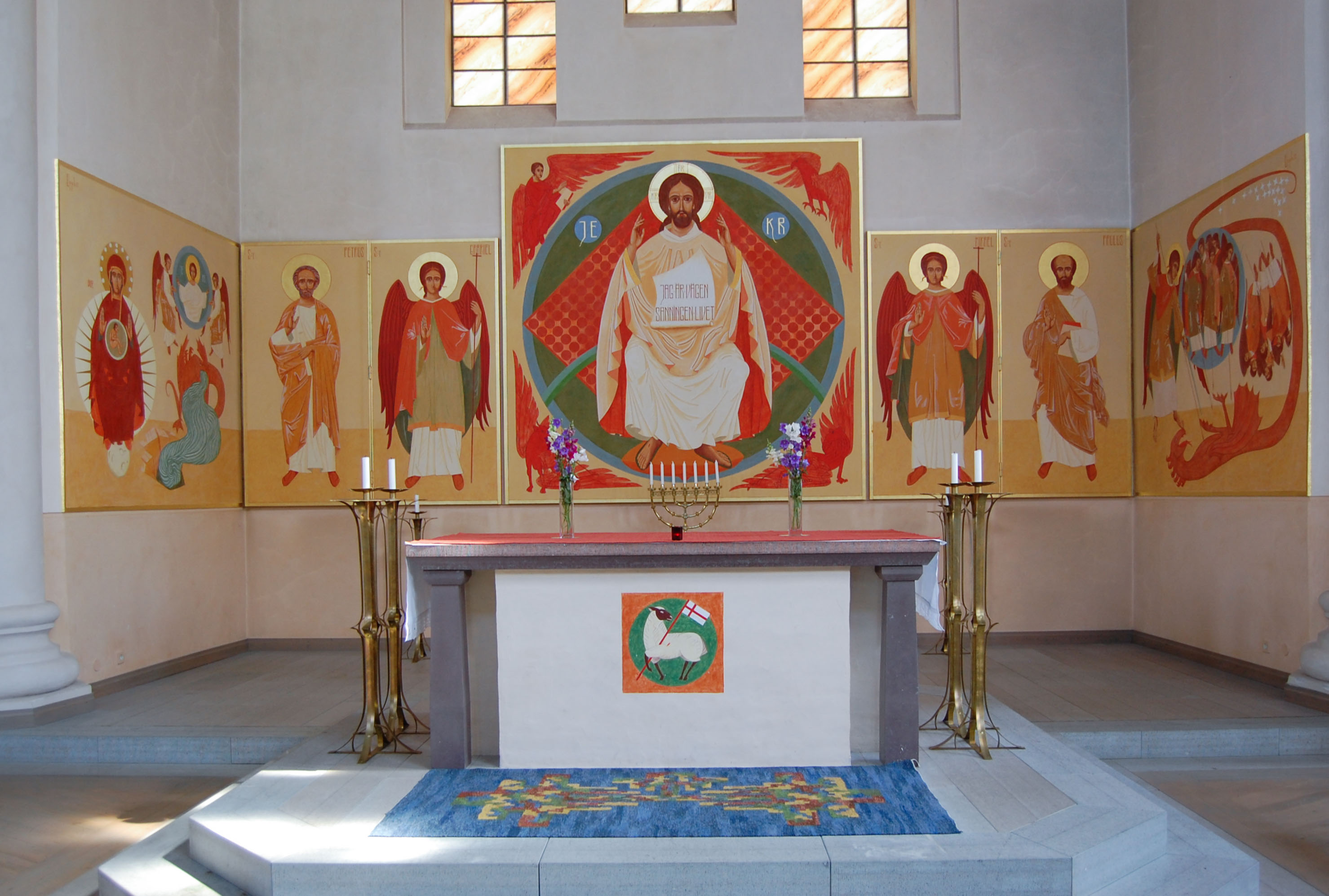 Örsjö church.Triptych done by Sven-Bertil Svensson